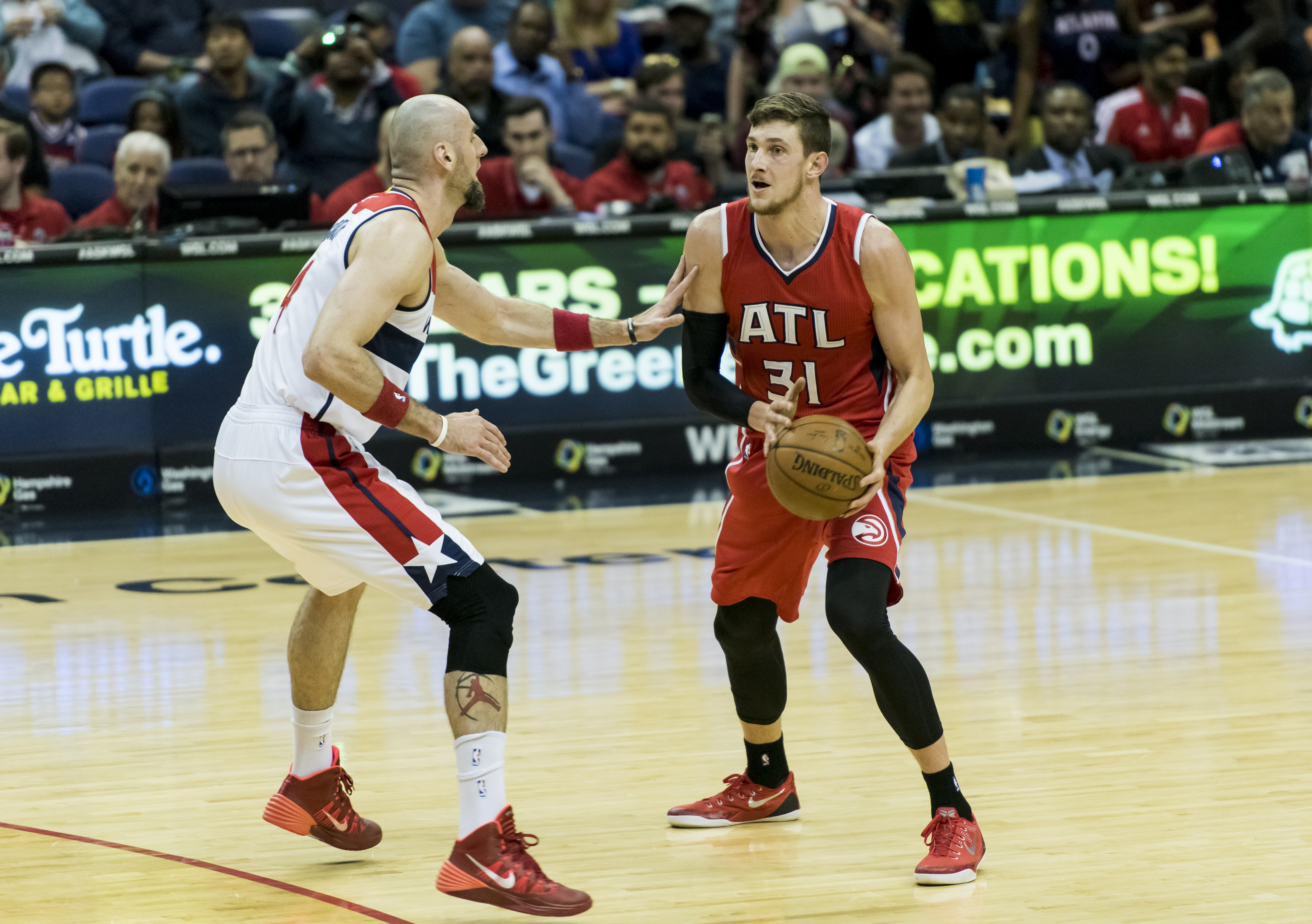 mike muscala atlanta hawks v washington dc verizon centre 2015 marcin gortat